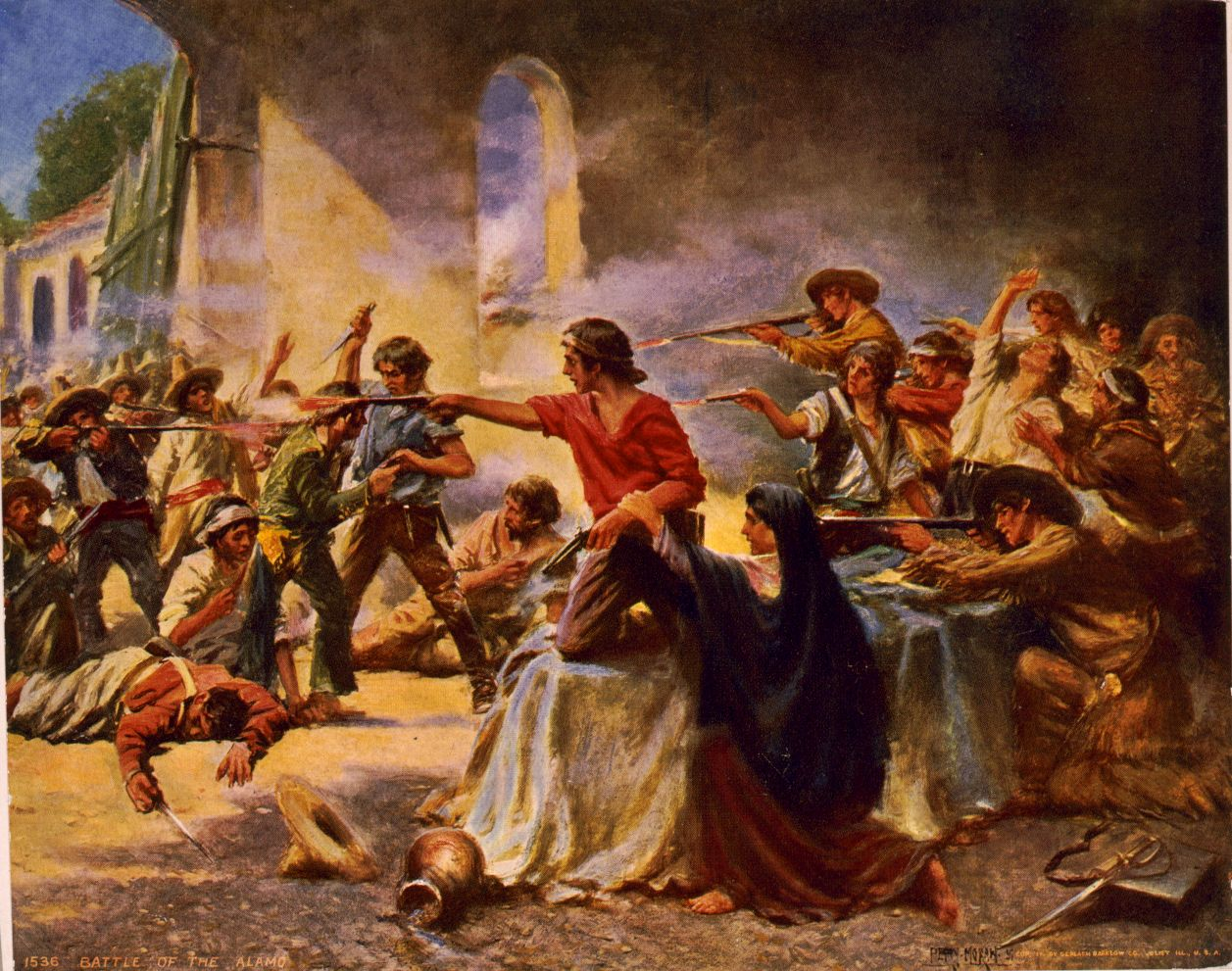 Imagen de Independencia de Texas